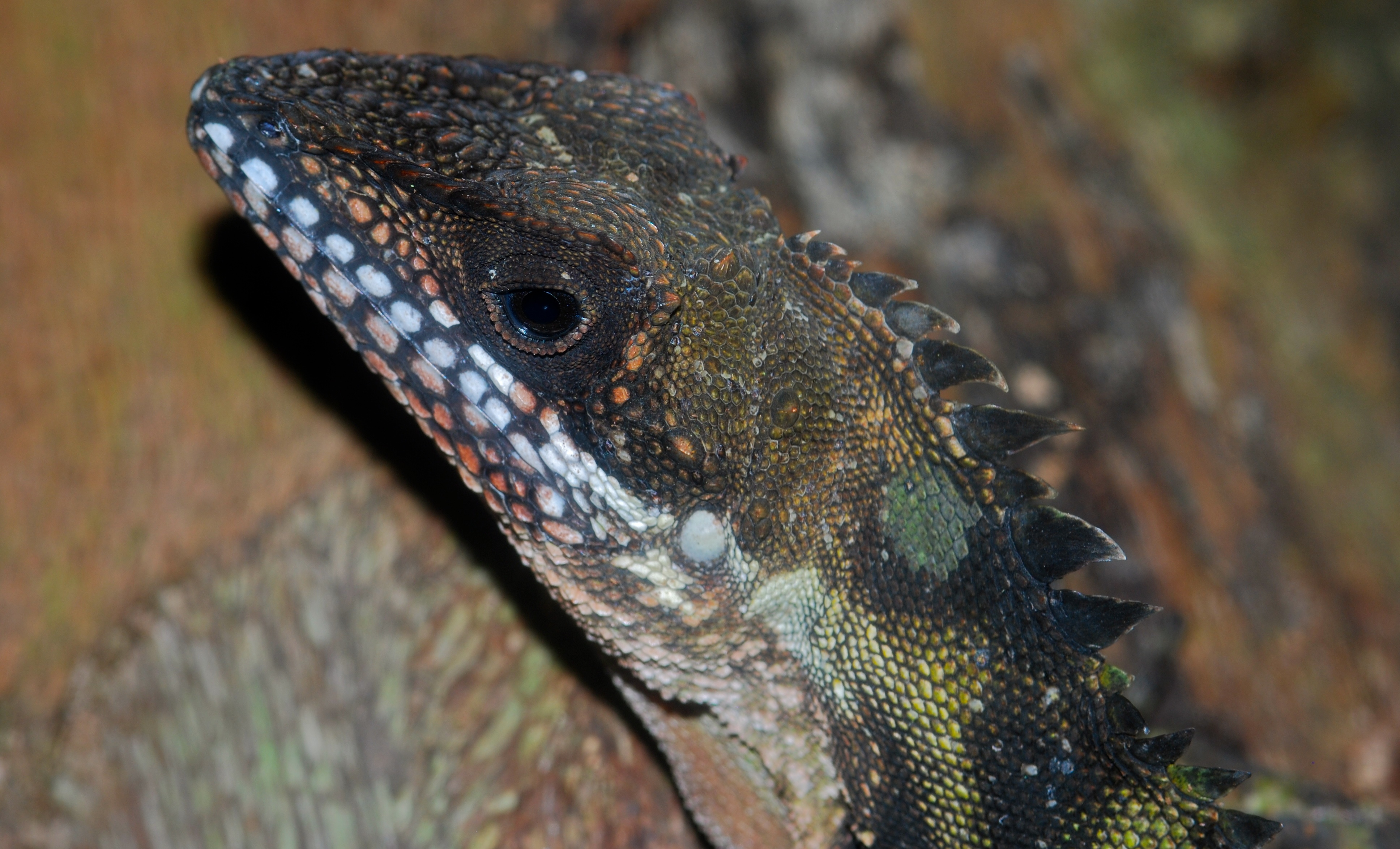 Butterfly Farm, Brinchang, Cameron Highlands, Pahang, MALAYSIA